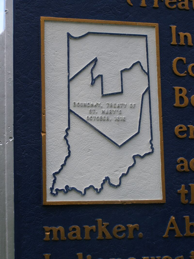 Map displayed on the Historic Marker of the land cession in Indiana